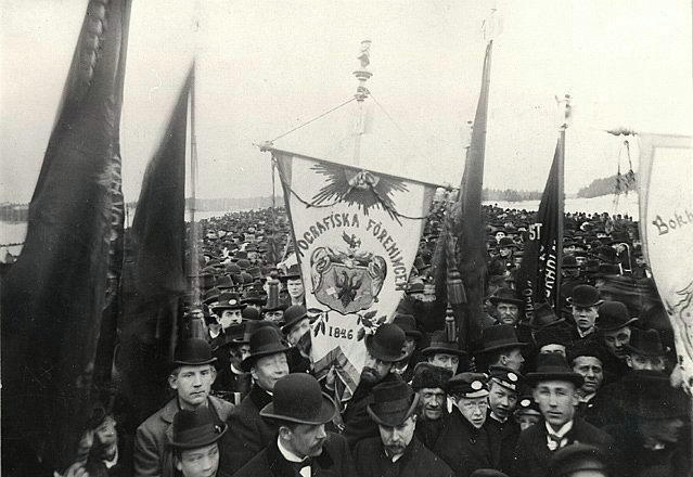 May Day Demonstration in Stockholm, Sweden, 1899